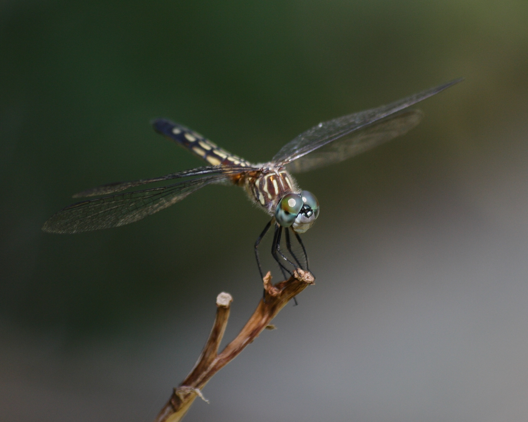 Female Blue Dasher (Pachydiplax longipennis) in central Connecticut.